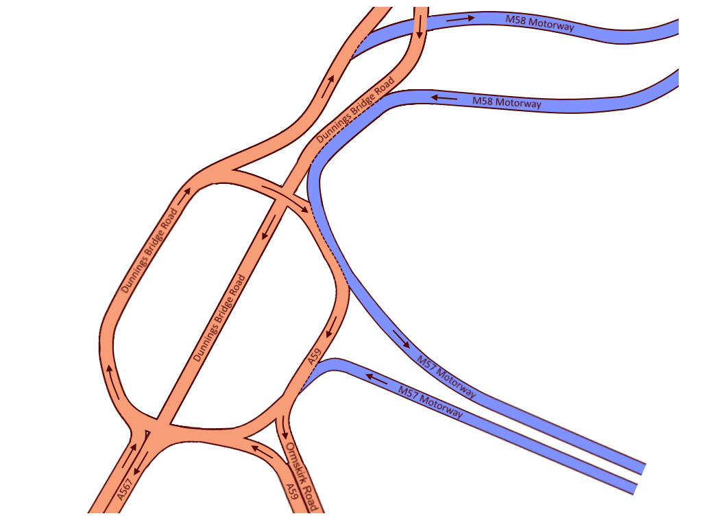 How Switch Island junction looked once the M58 motorway had been constructed and connected. Layout referenced against historical road map